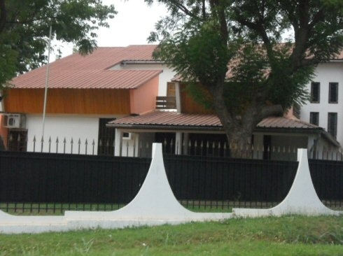 Cameroon Embassy in Bangui (Central African Republic)